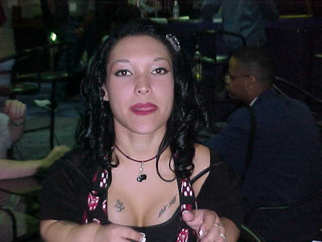 Bridget Powers, aka Bridget the Midget. American pornographic actress with dwarfism.